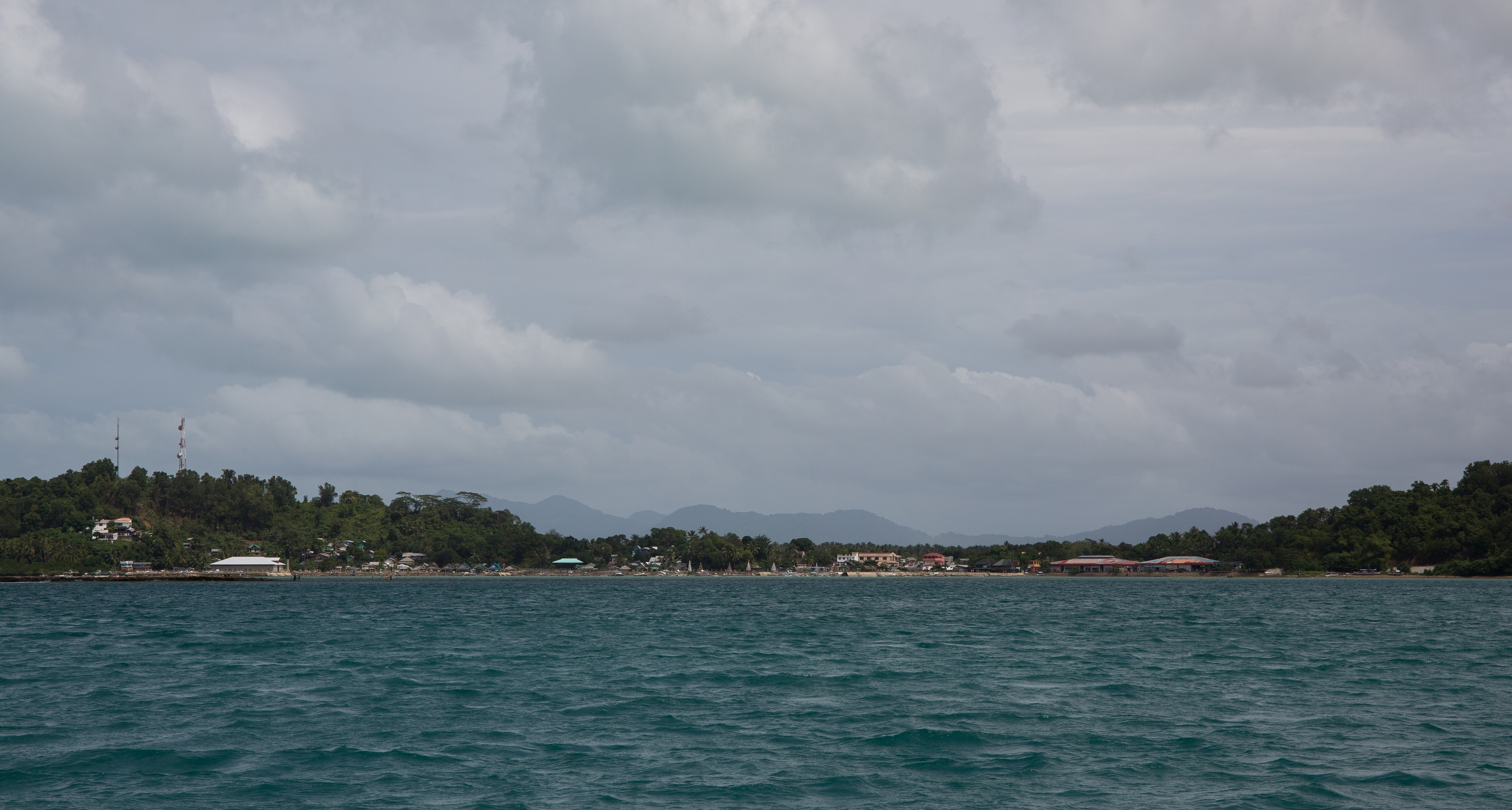 San Vicente (Palawan) approaching the harbour